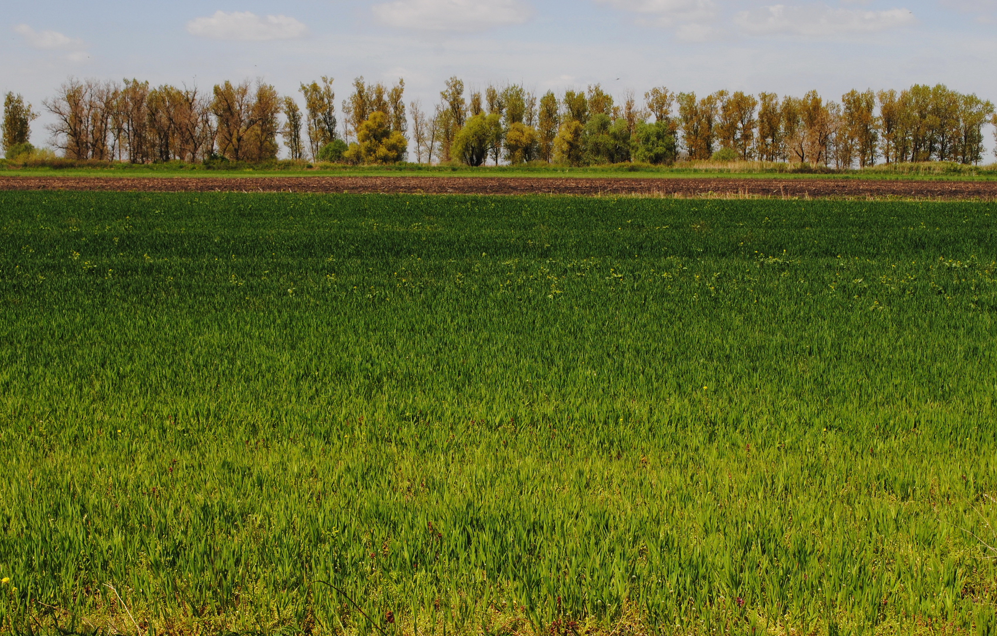 Nature Reserve Meadows of Great Bustard. Srpski (latinica): Specijalni rezervat prirode Pašnjaci velike droplje Ово је фотографија заштићеног природног добра у Србији под шифром: РП21This is a a photo of a natural area in Serbia with ID: РП21